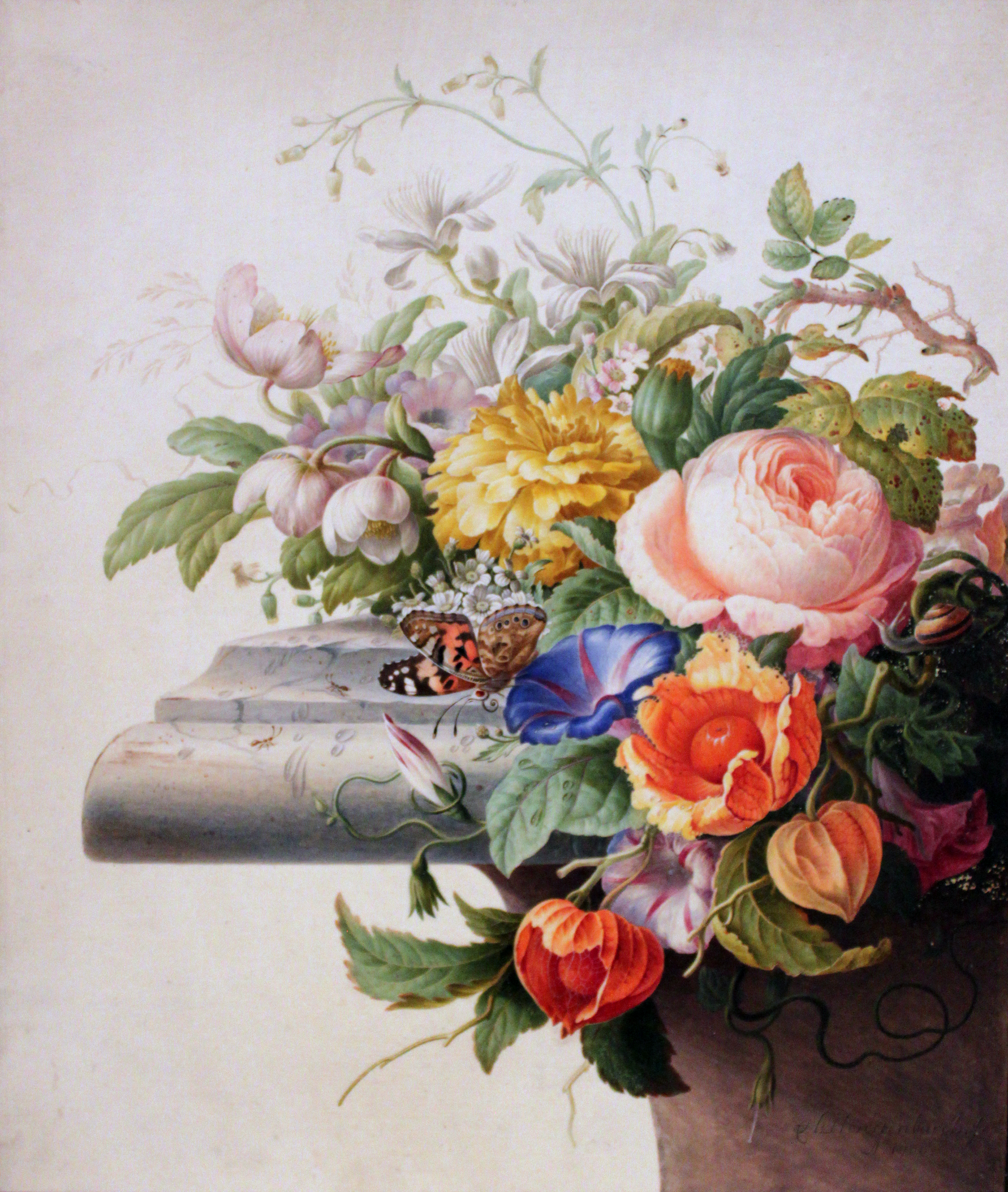 Bouquet